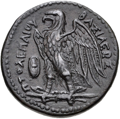 Image of ancient Hellenistic Egyptian coin inscribed King Ptolomey (BASILEOS PTOLOMAION) in Principal Gold and Silver Coin of the Ancients by Barclay C. Head. Showing the Eagle of Zeus holding a thunderbolt.